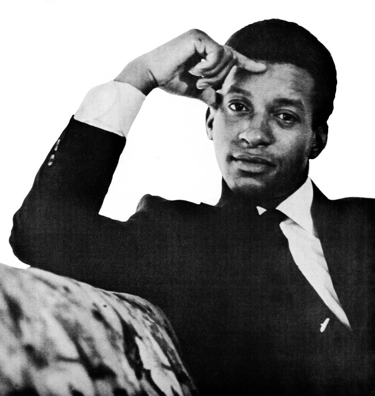 Trade ad for Mel Carter's single "Take Good Care Of Her".To better adapt it to his respective Wikipedia article, the ad was cropped and cleaned in a graphics editing program. The original can be viewed at the source below.